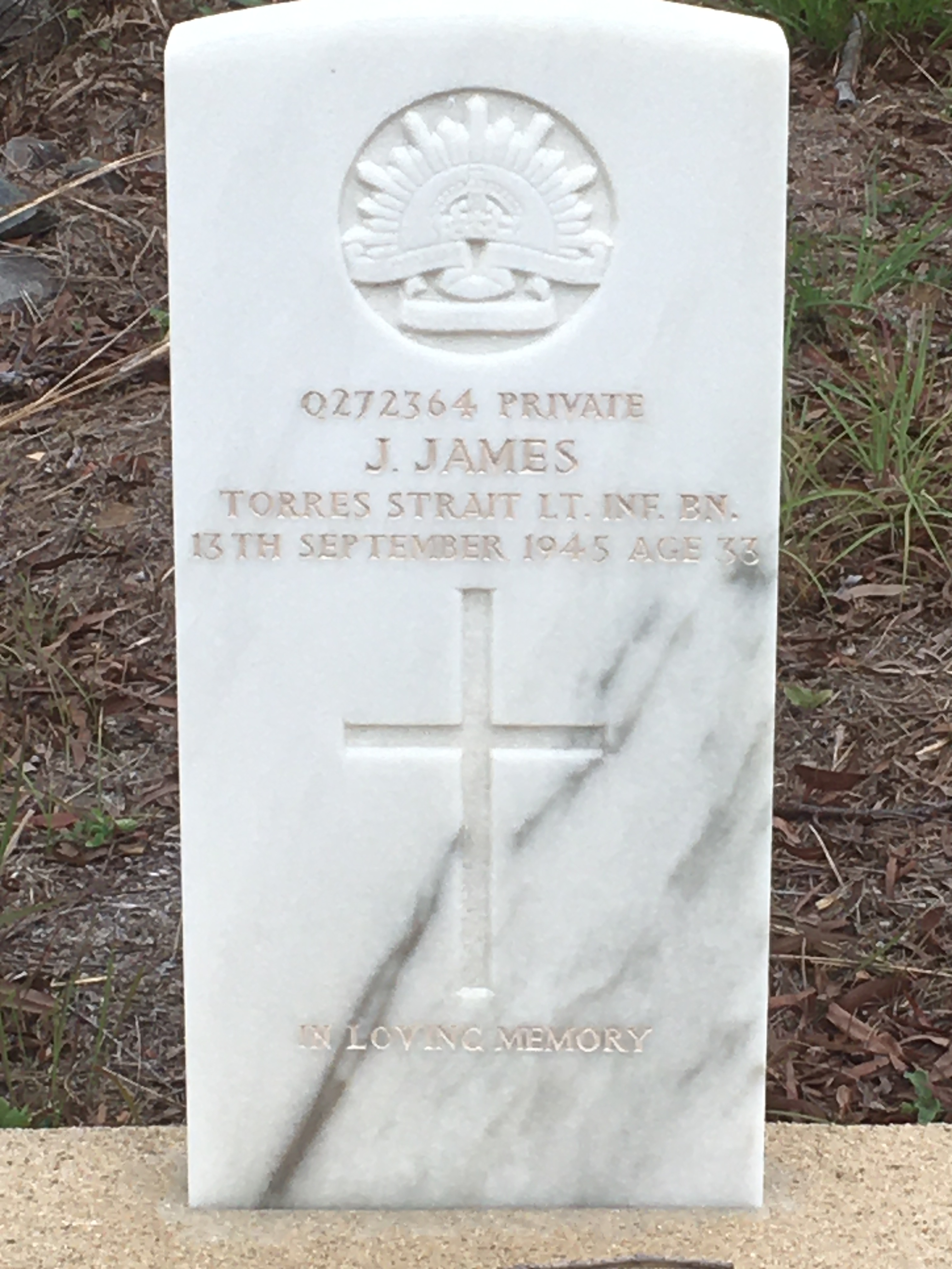 The gravestone of Thancoupie's father Private Jimmy James located in Thursday Island cemetery. Gravestone displays his date of death as the 13th of September 1945.